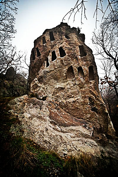 Светилище А.Войвода